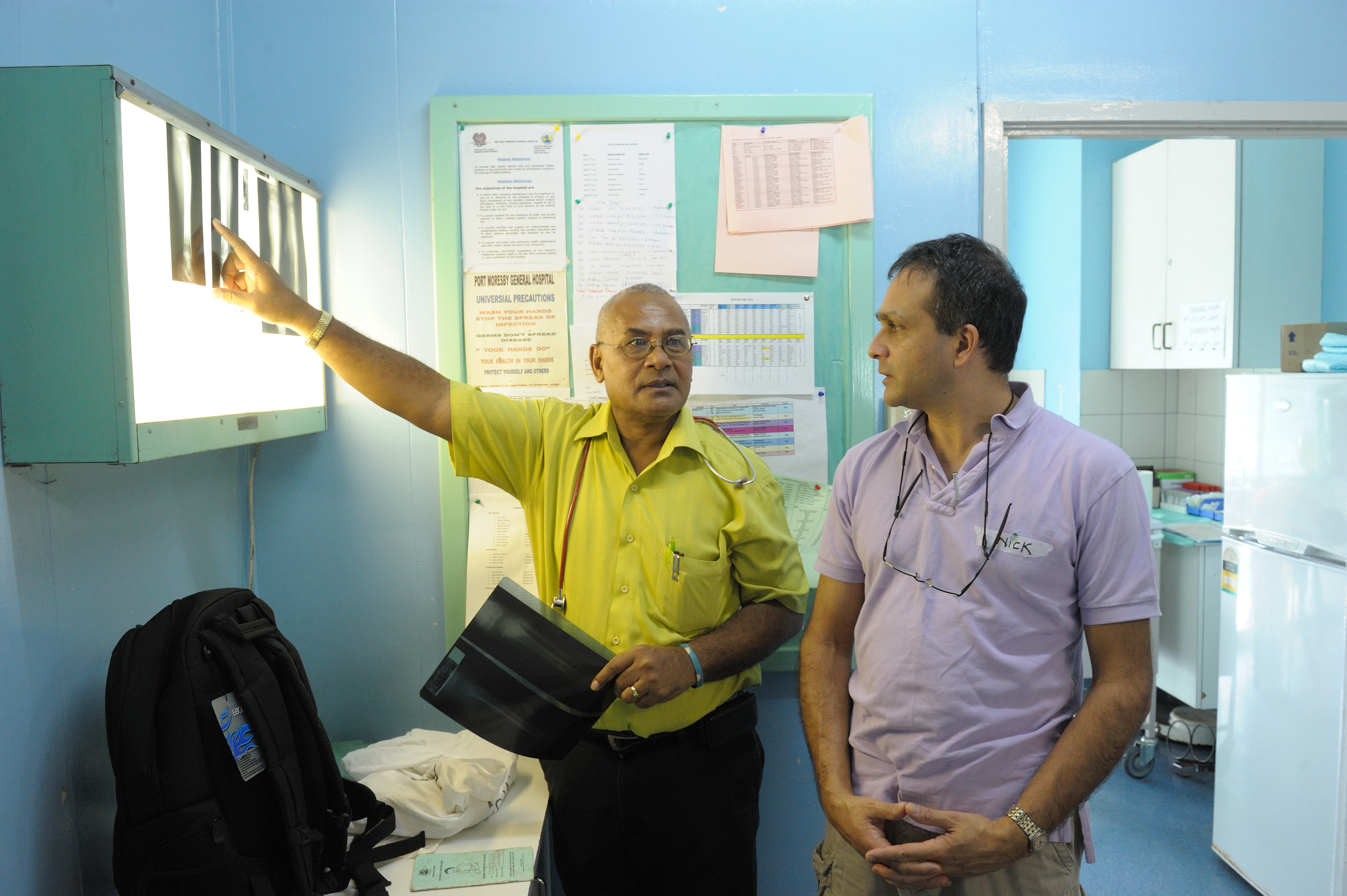 Port Moresby specilaist, Associate Proffessor Nakapi Tefuarani showing Randwick specialist Dr Nick Piggot patient x-rays. The two specialists worked together at Port Moresby General Hospital during Operation Open Heart, an AusAID supported program where Australian surgical teams visit PNG and help train PNG teams in specialist surgery.